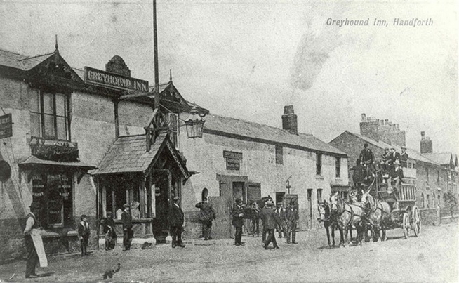 Greyhound Inn, Handforth, demolished in 2000